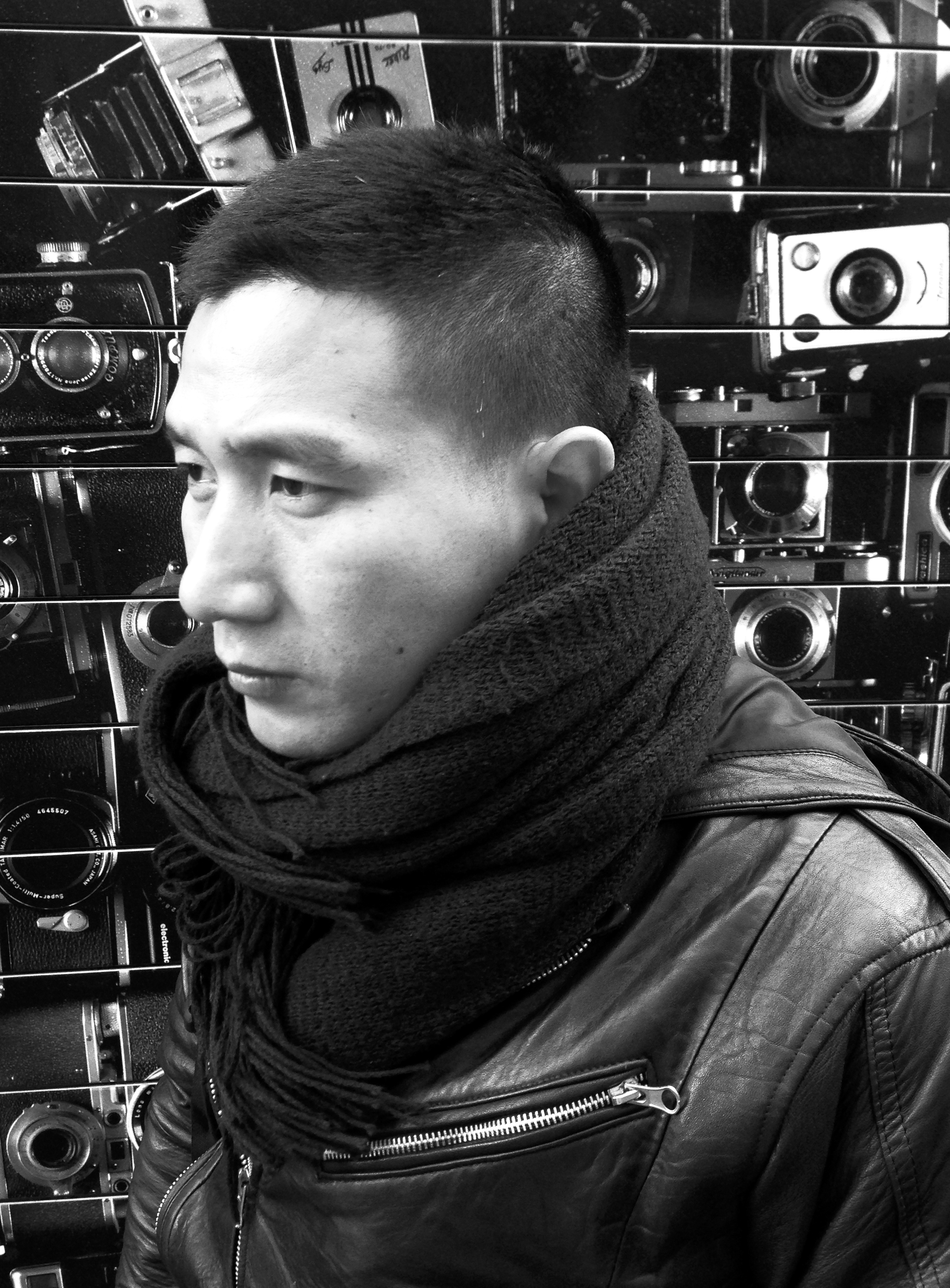 Midi Z. by Ruhulf